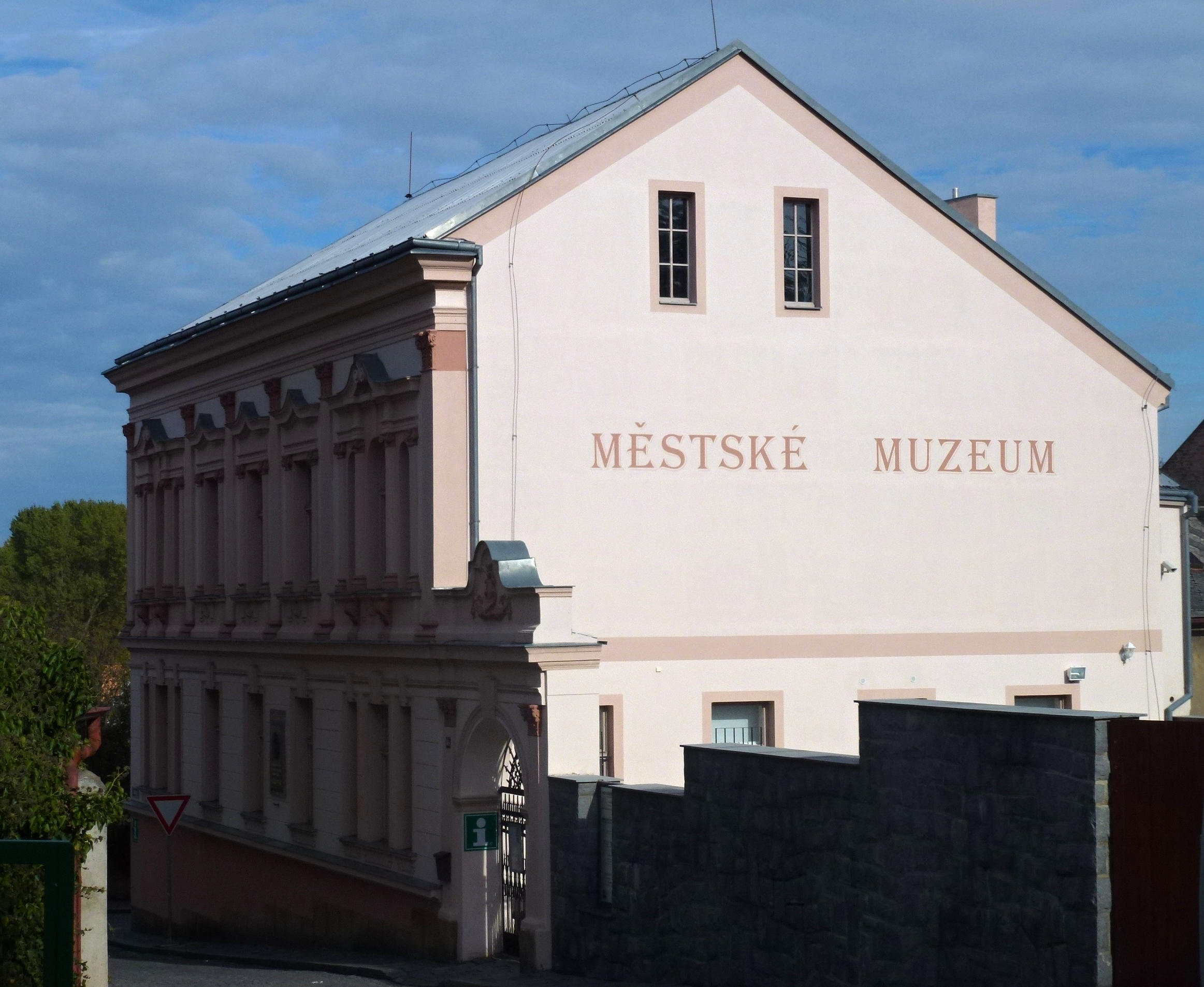 Municipal Museum and the Tourist Information Centre in Skuteč. Photo location - Czechia, Pardubice Region, Skuteč town.